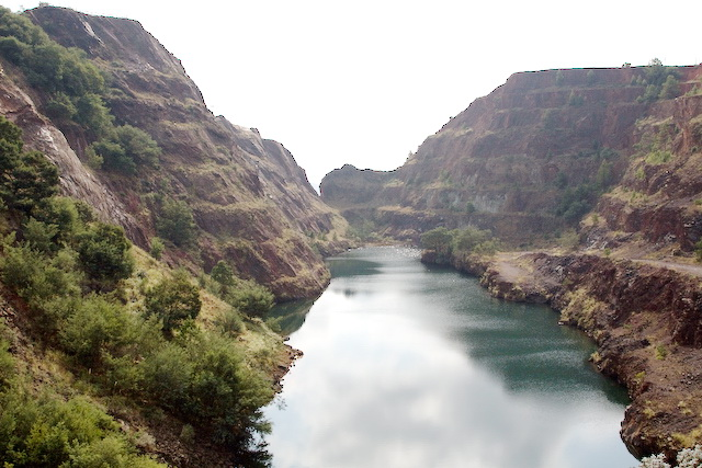 Ngwenya mine is the oldest known mine in the world. The san, or bushmen, mined hematite here 40,000 years ago to make paint for cave paintings and probably other uses. It was mined commercially up until the 70s.